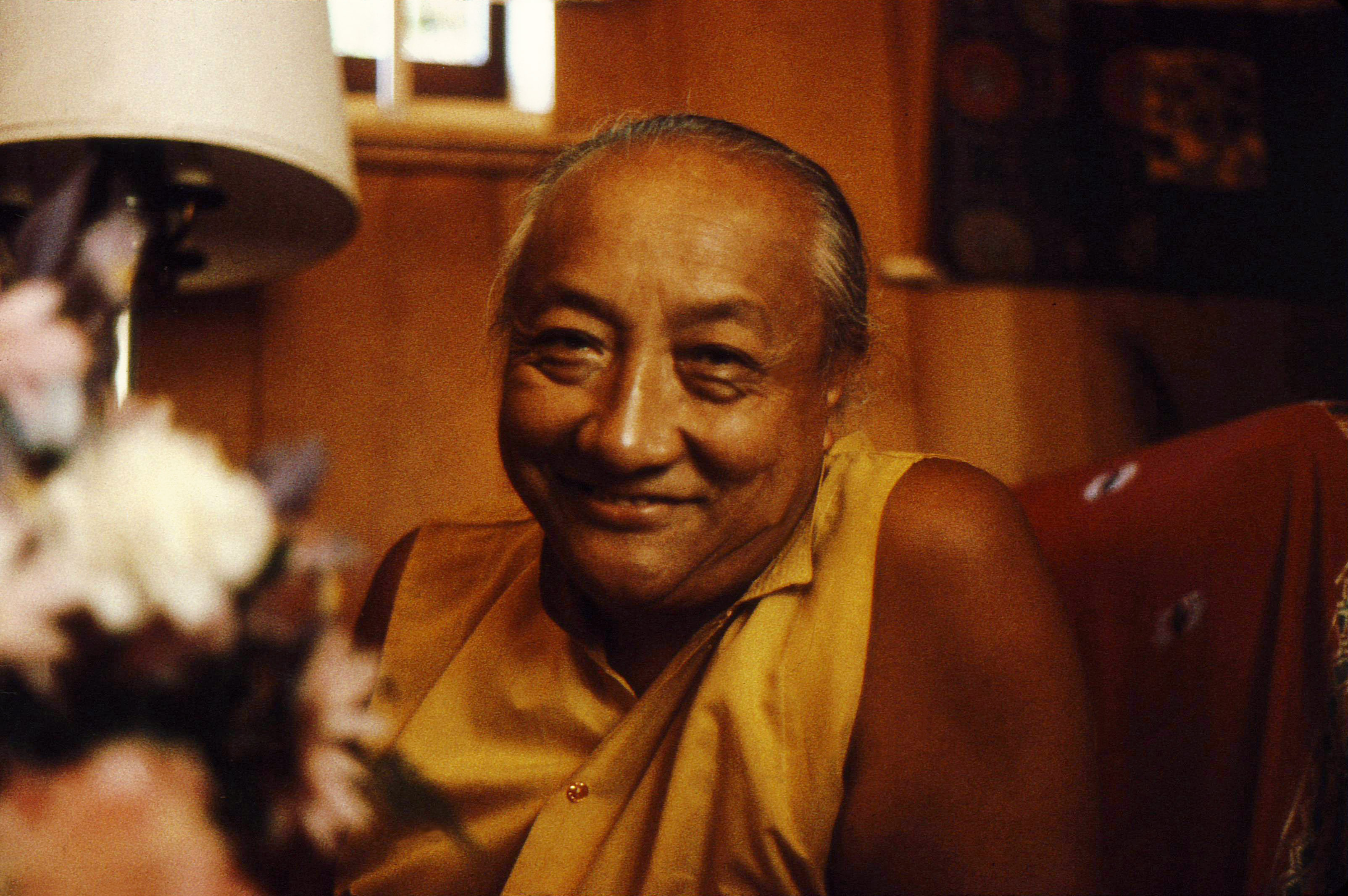 HH Dilgo Khyentse Rinpoche at Sakya Ward St Center Seattle Washington USA 1976 The old Sakya Center became Sakya Monastery of Tibetan Buddhism, located in the Greenwood neighborhood of Seattle.